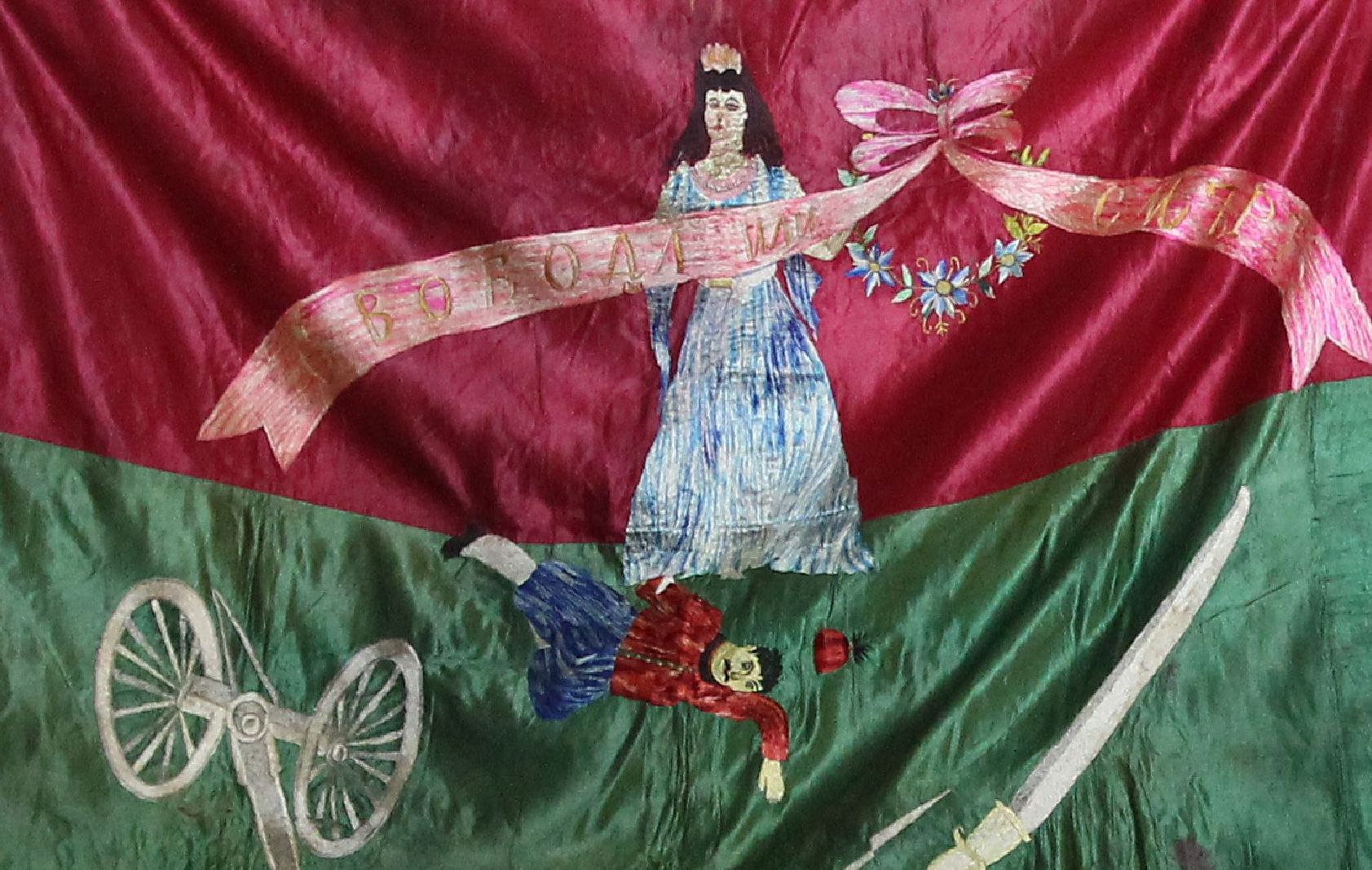 The flag was sewn in the winter of 1903 at the insistence of the chieftain Apostol Petkov. On July 20, 1903 in the village Kornishor before him sweared 250 rebels of IMRO.